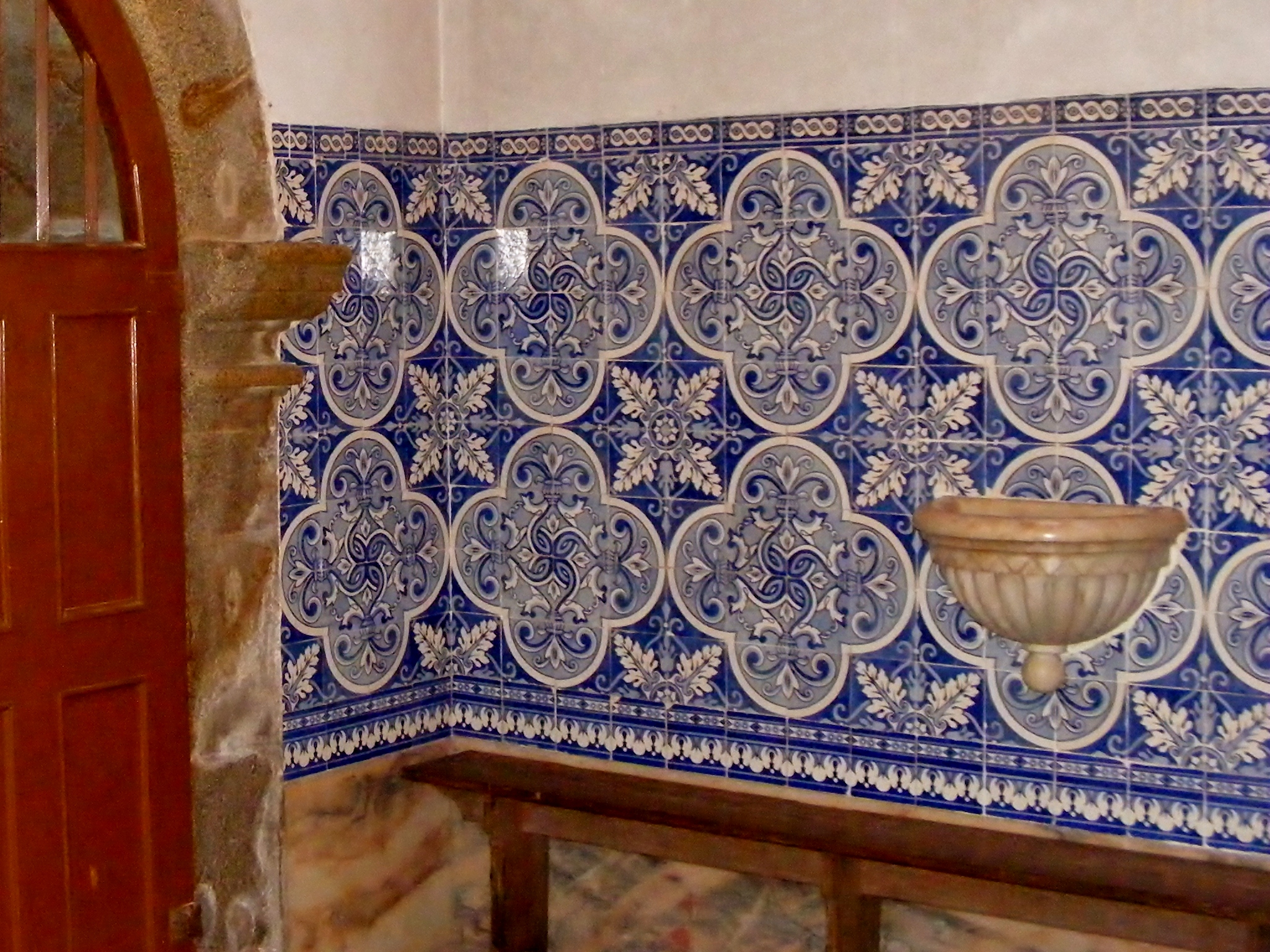 tile "azulejo"